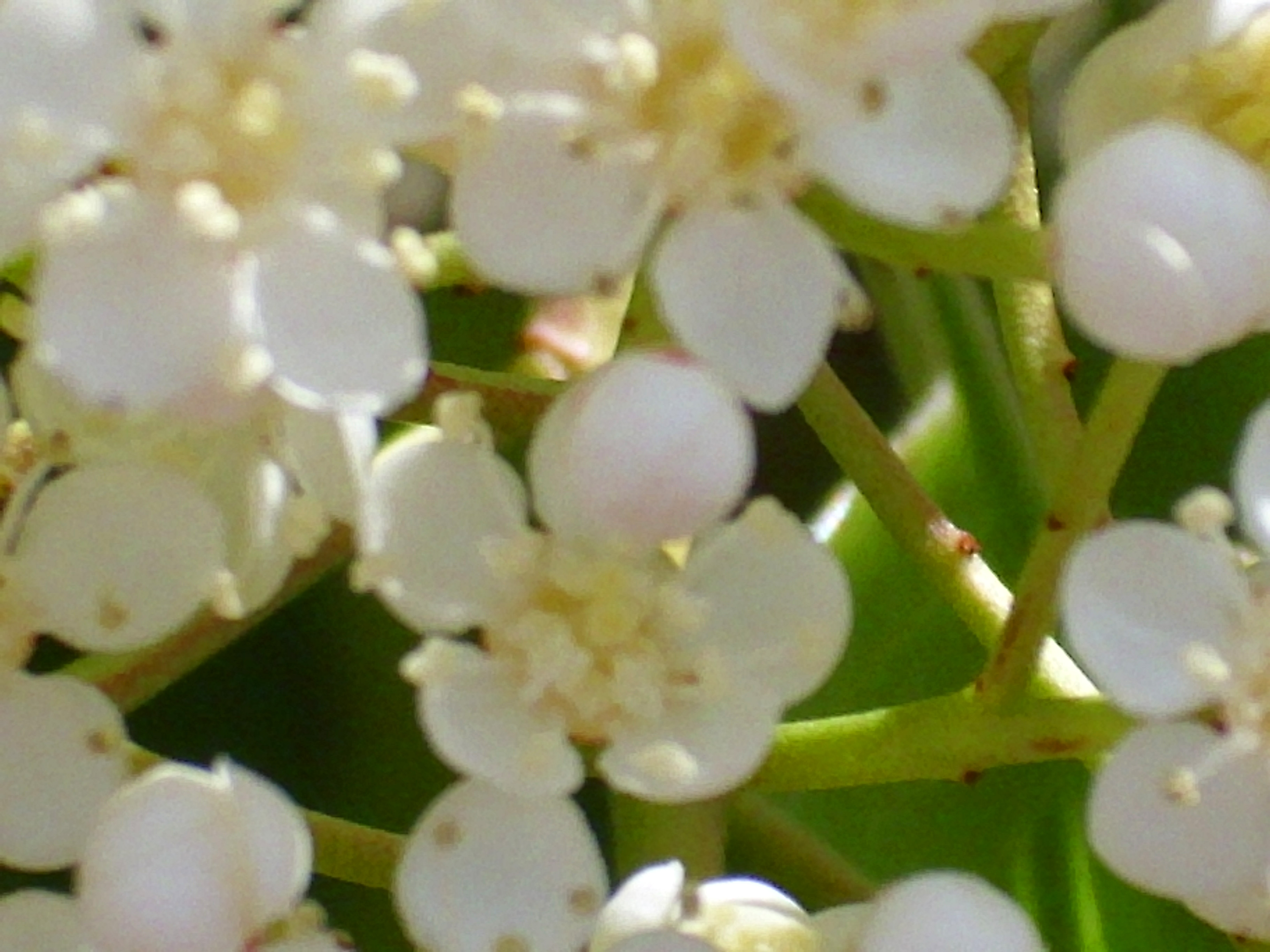 Photinia serratifolia in Puertollano gardens, Spain.